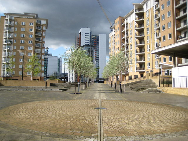 Blackwall: Virginia Quay and the Greenwich Meridian The line down the middle of the avenue represents the Greenwich Meridian, and carries on up the building in the distance. Incidentally don't take your GPS receiver to this line and expect it to read 0˚ 00' 00".00000 W longitude! This is because the GPS system uses World Geodetic System 1984 (WGS84) longitudes which are defined, simply, in terms of the geometric centre of the Earth, whereas the Greenwich Meridian is defined in terms of the gravitational centre of the Earth, which is slightly different. 0˚ 00' 00".00000 W longitude on your GPS should appear about 100 metres east of this location, near the Virginia Quay memorial, whereas you should read about 0˚ 00' 05".7 W longitude here on this line. As an aside (!) this is the Barratt-built Virginia Quay housing development.